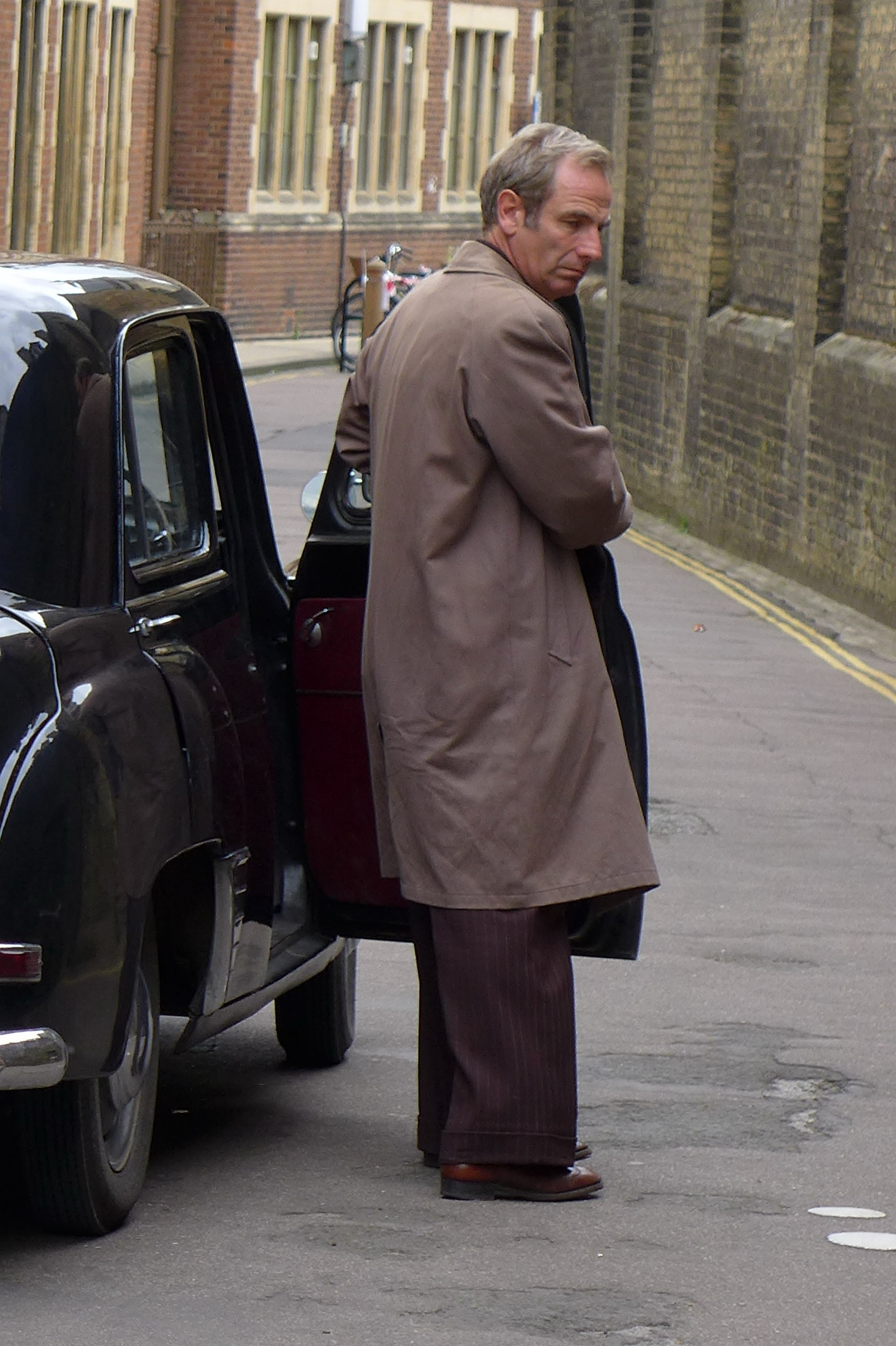 Robson Green at a shooting in Cambridge, September 2015